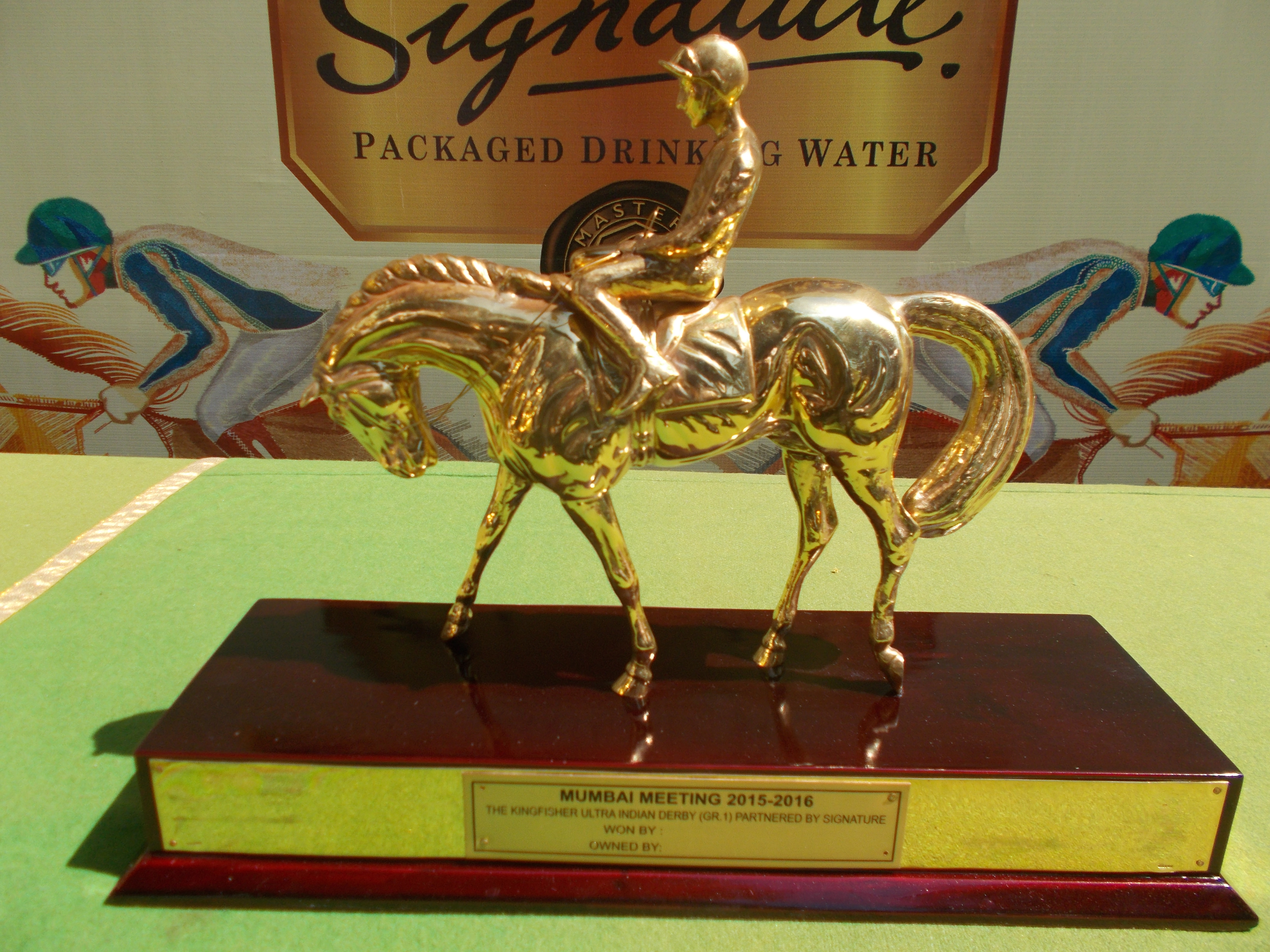 The coveted Indian Derby Trophy that every horse owner covets and every horse is bred to try to win it.